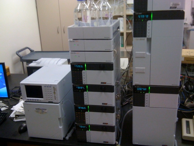 This is the Prominence Shimadzu HPLC